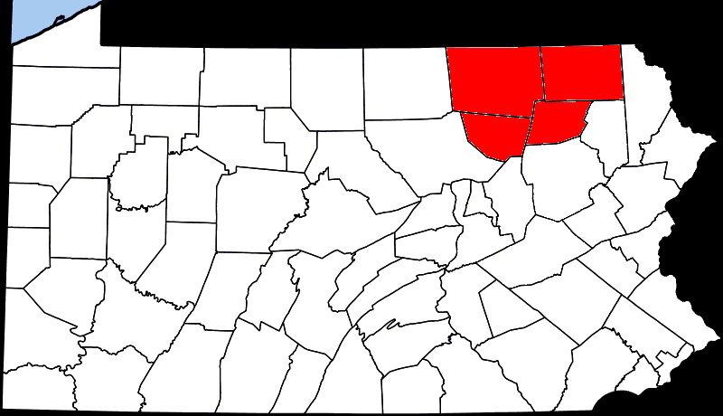 altered version of (Public domain map courtesy of The General Libraries, The University of Texas at Austin, modified to show counties relevant to article. Released under GFDL. See Wikipedia:U.S. county maps.)